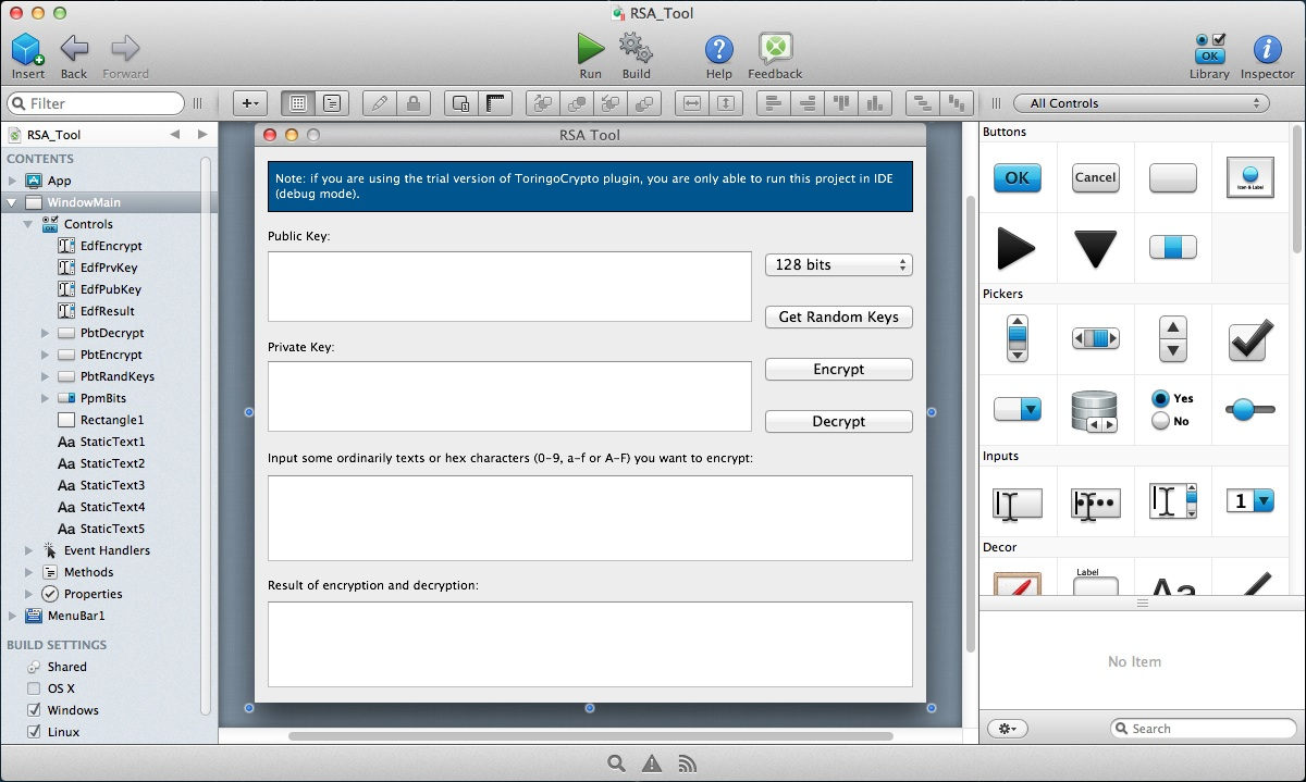 Xojo Running On Mac OS X